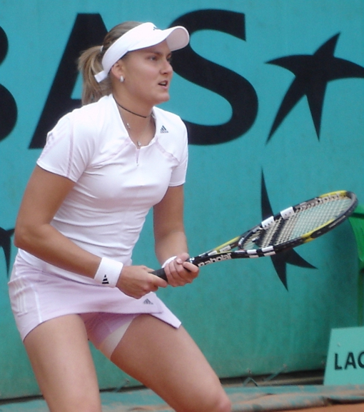 Nadia Petrova during the 2006 French Open